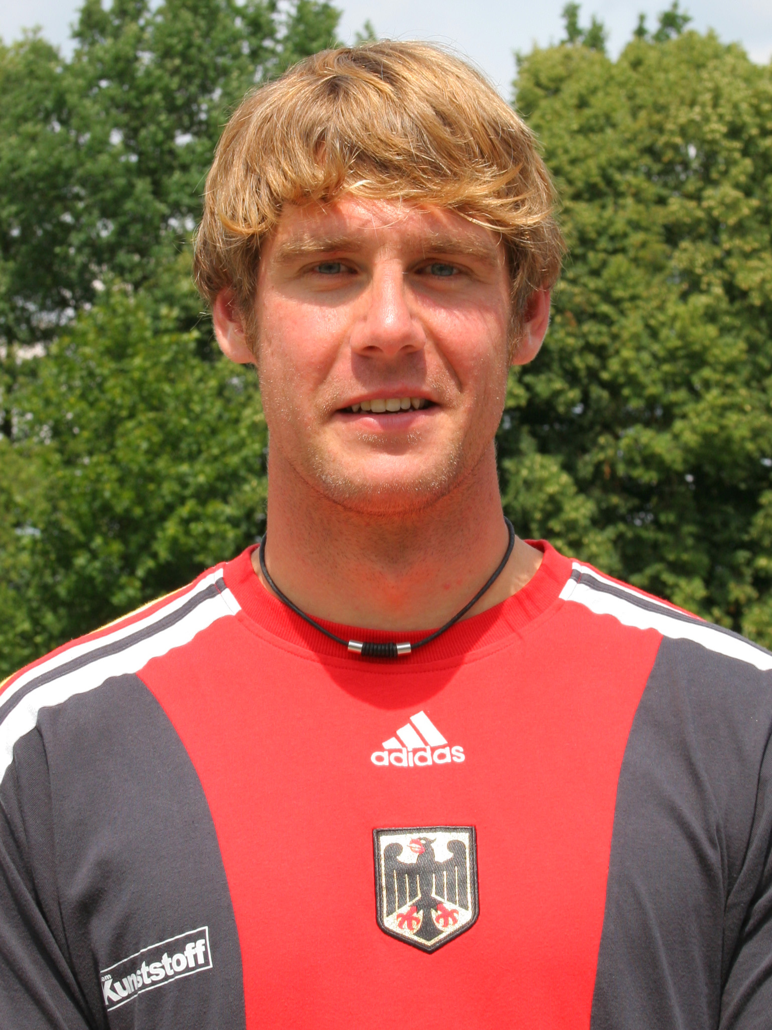 Marco Herszel World Champion Canoe Sprint (Pic: 2007-06-11)